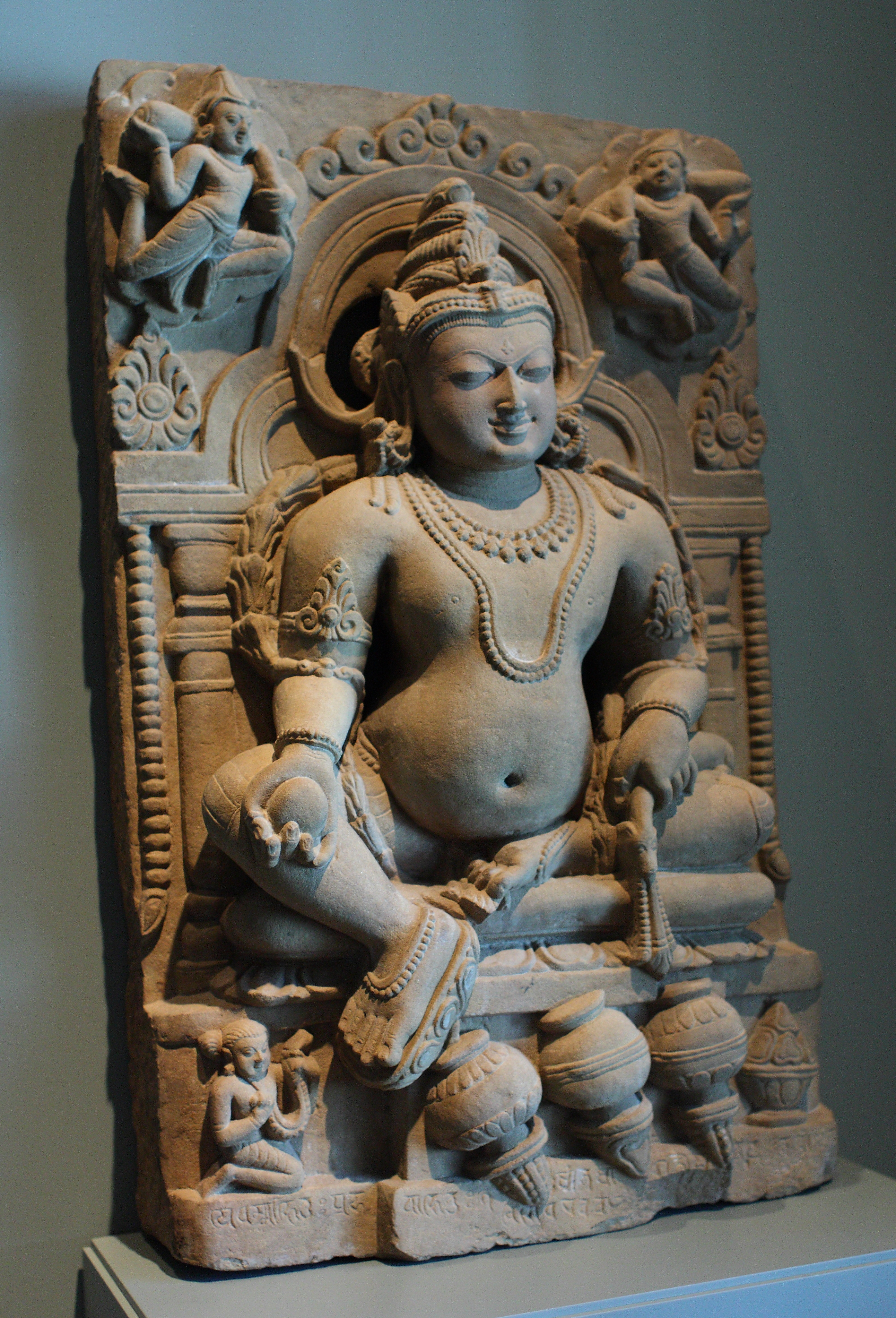 The Deity Jambhala, approx. 1000-1100. India; Sarnath area, perhaps Uttar Pradesh or Bodhgaya area. Bihar State. Sandstone. The Avery Brundage Collection, B63S8+. Asian Art Museum, San Francisco. More information can be found on the Asian Art Museum online collection here